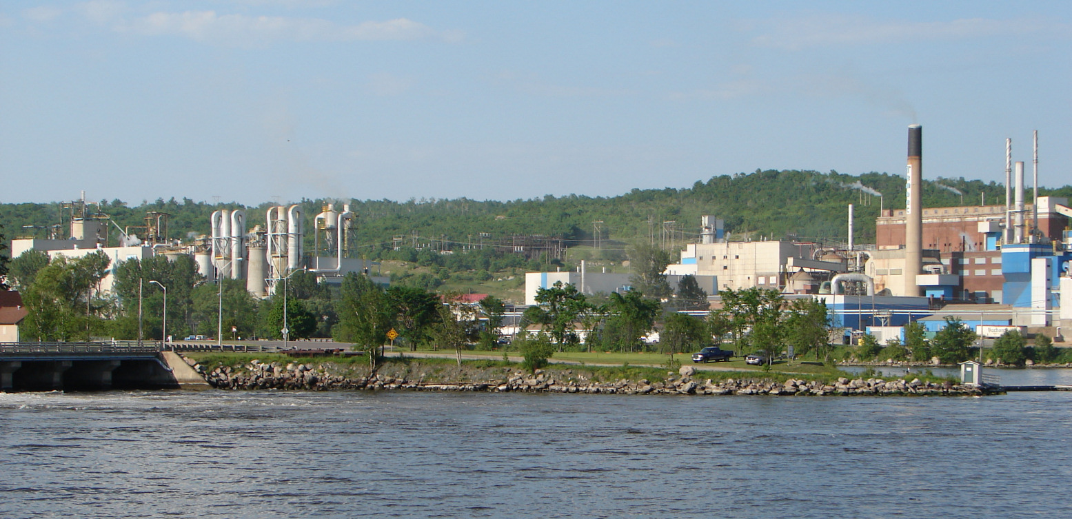 Temiscaming, Quebec, Canada